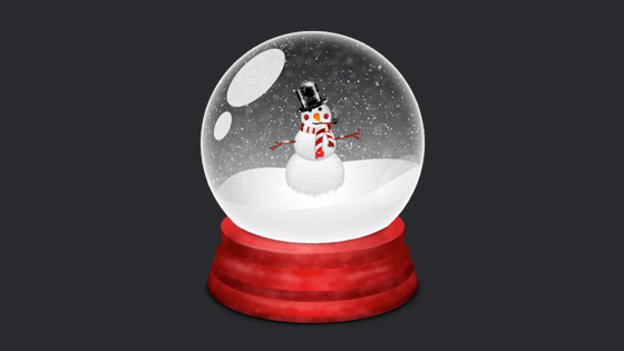 Snow Globe icon